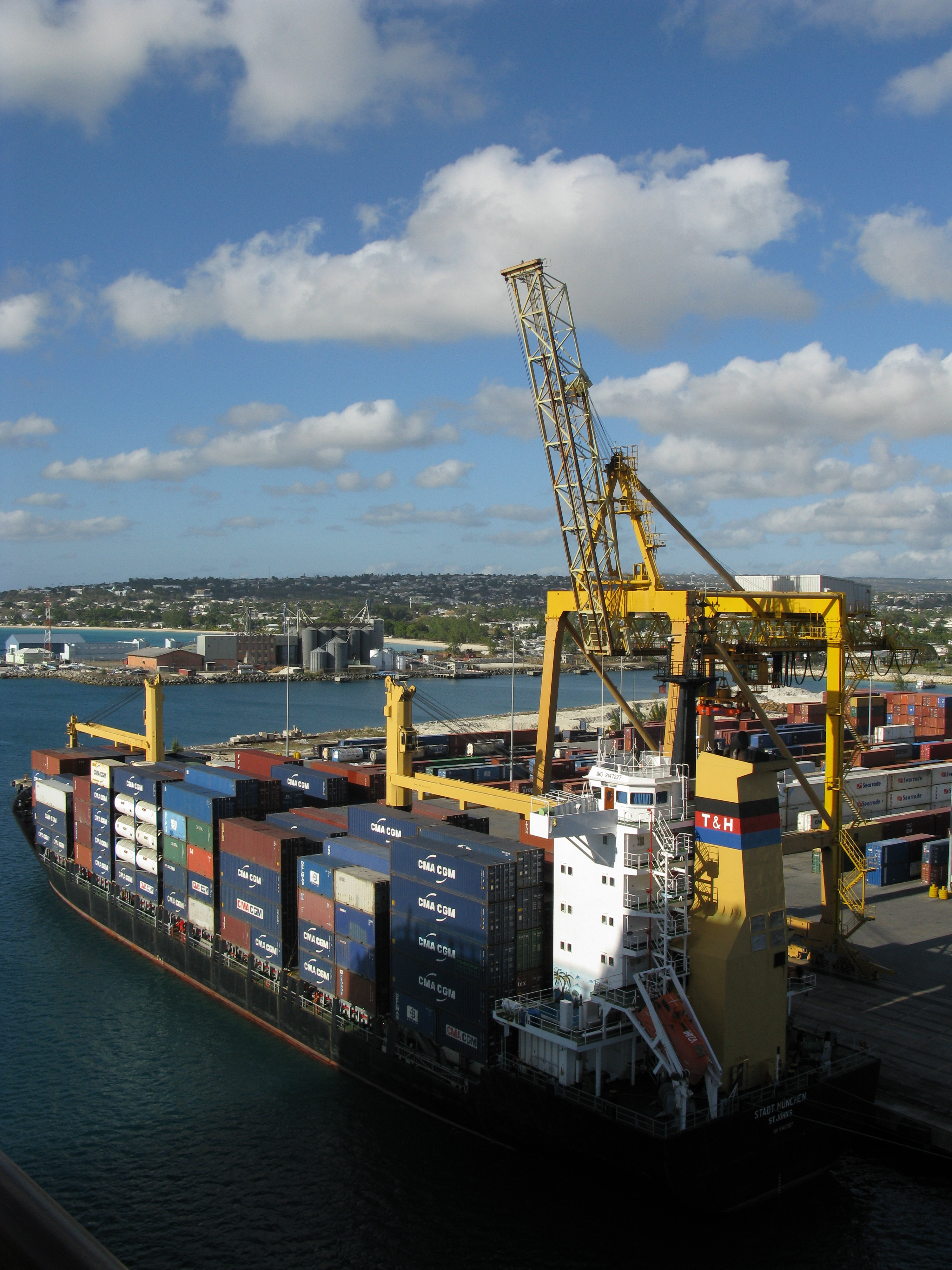 Container ship Stadt München moored in Bridgetown, Barbados.